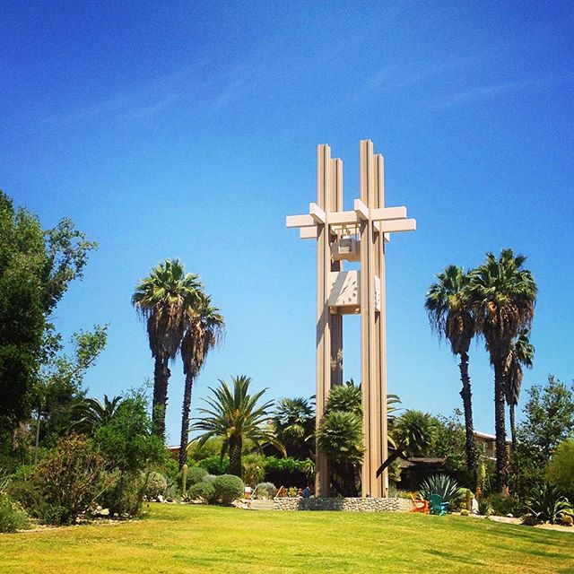 Brant Clock Tower, Pitzer College, 2016